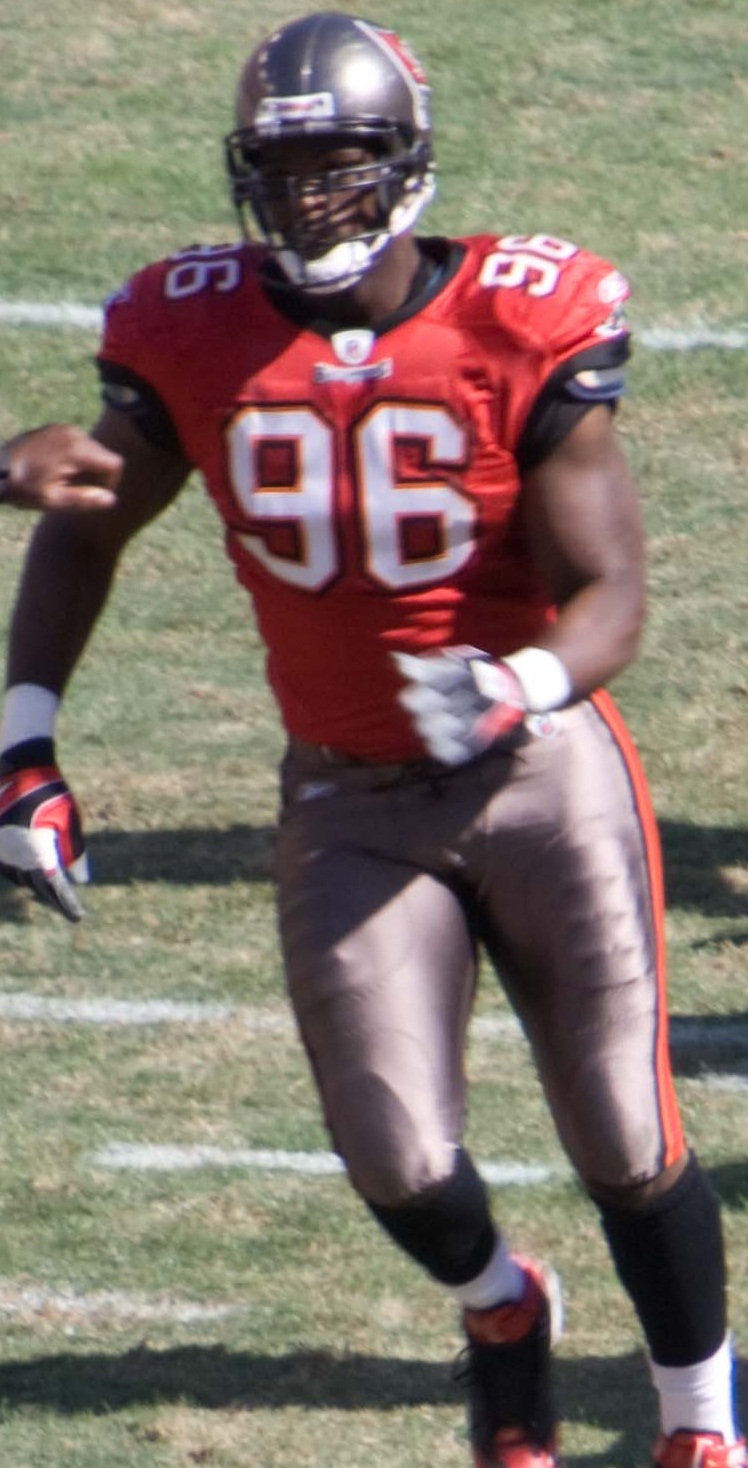 Tim Crowder during a game against the Washington Redskins in 2009.